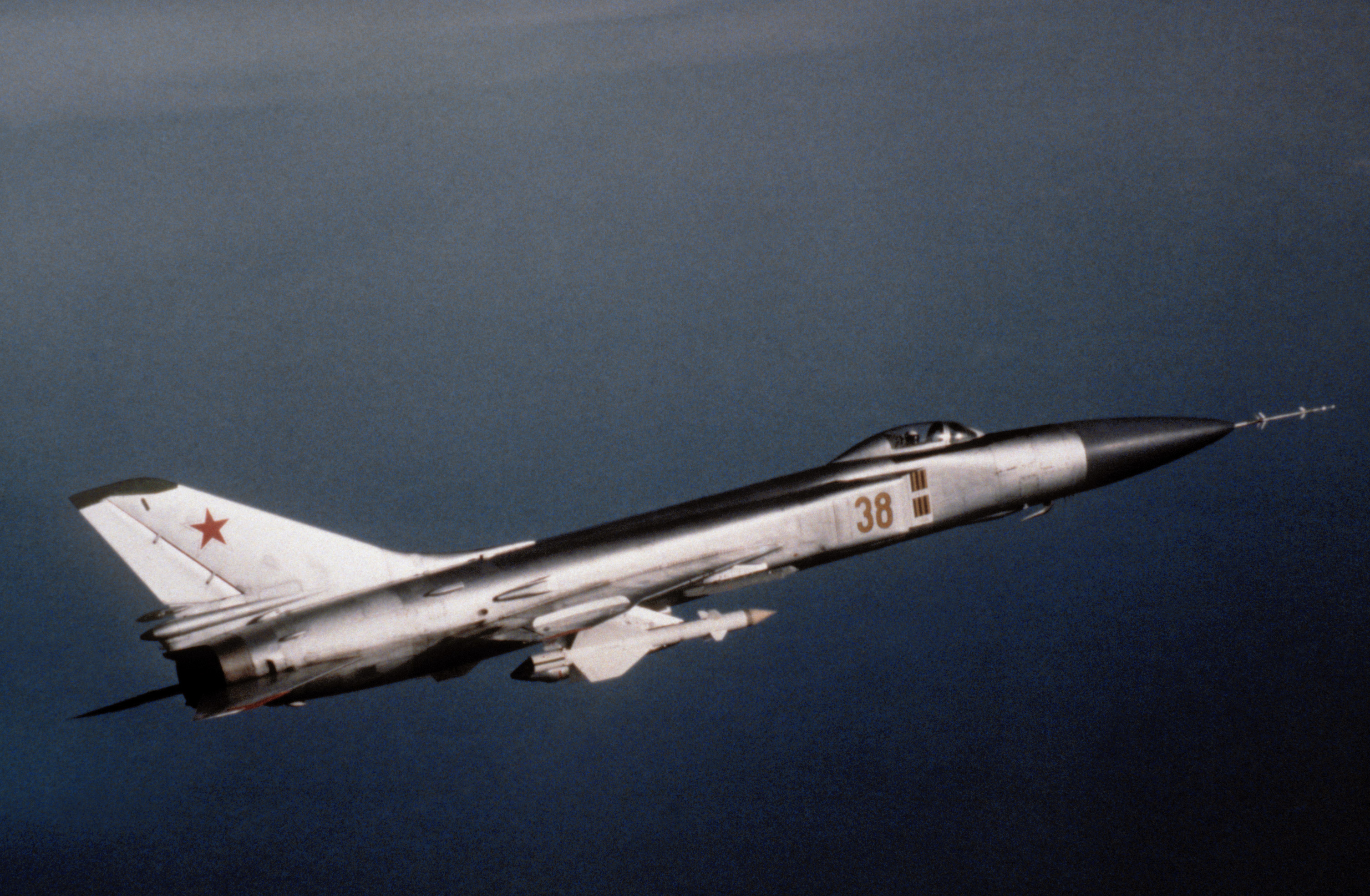 Sukhoi Su-15 (NATO code Flagon) armed with R-98MR missiles.